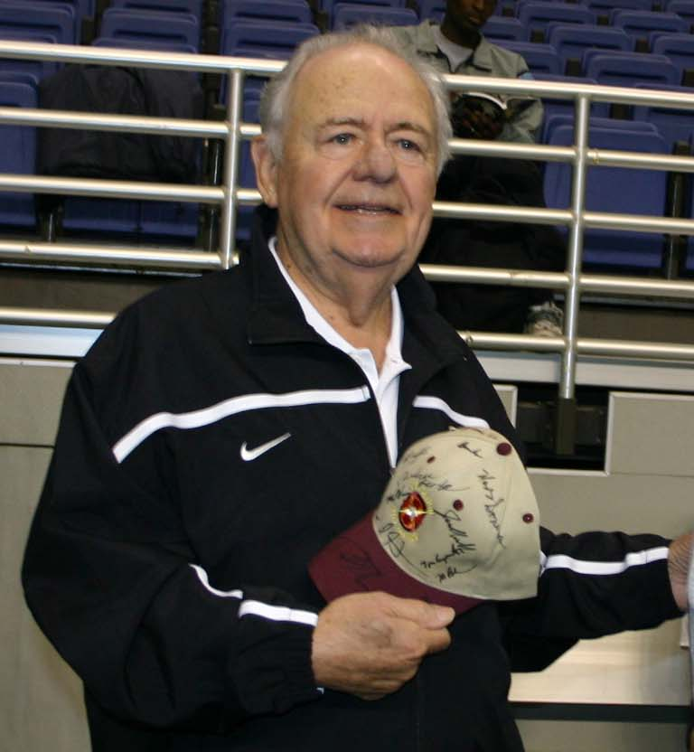 Wounded soldier Spc. Andrew Soule, from Brooke Army Medical Center, presents New Orleans Saints owner Tom Benson with a BAMC hat autographed by soldiers attending the team's practice Oct. 7.